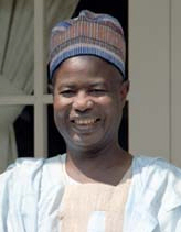 Image of U.S. President Ronald Reagan and President of Cameroon Ahmadou Babatoura Ahidjo